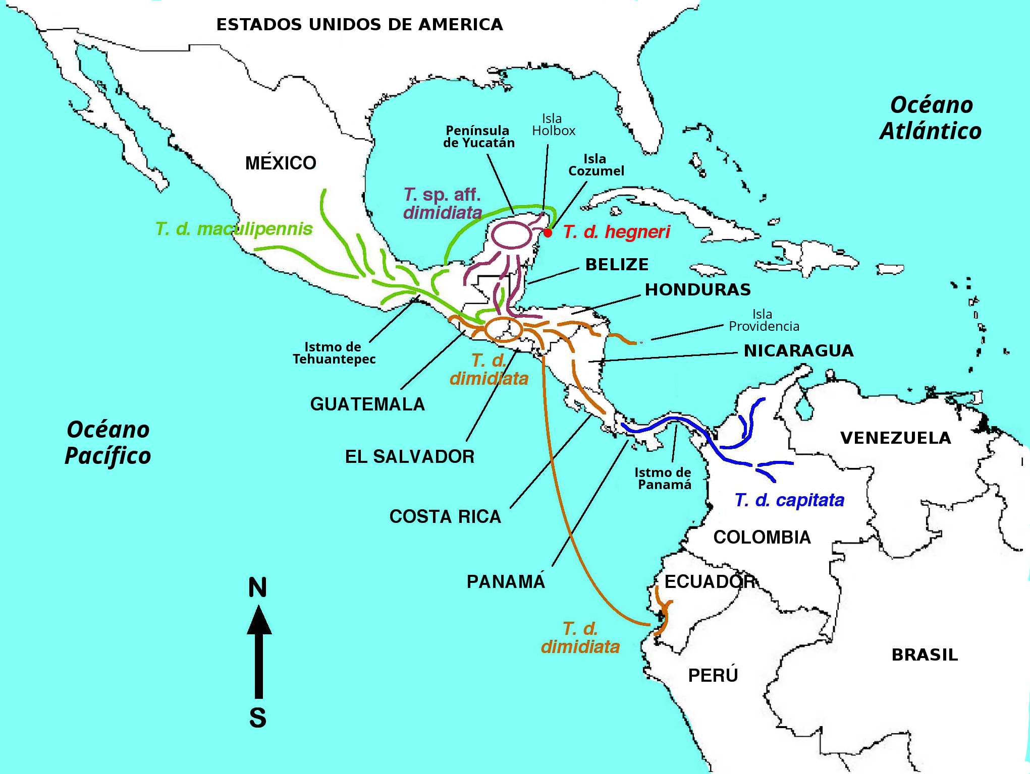 Distribution and expansion of Triatoma dimidiata in Meso America, in Spanish